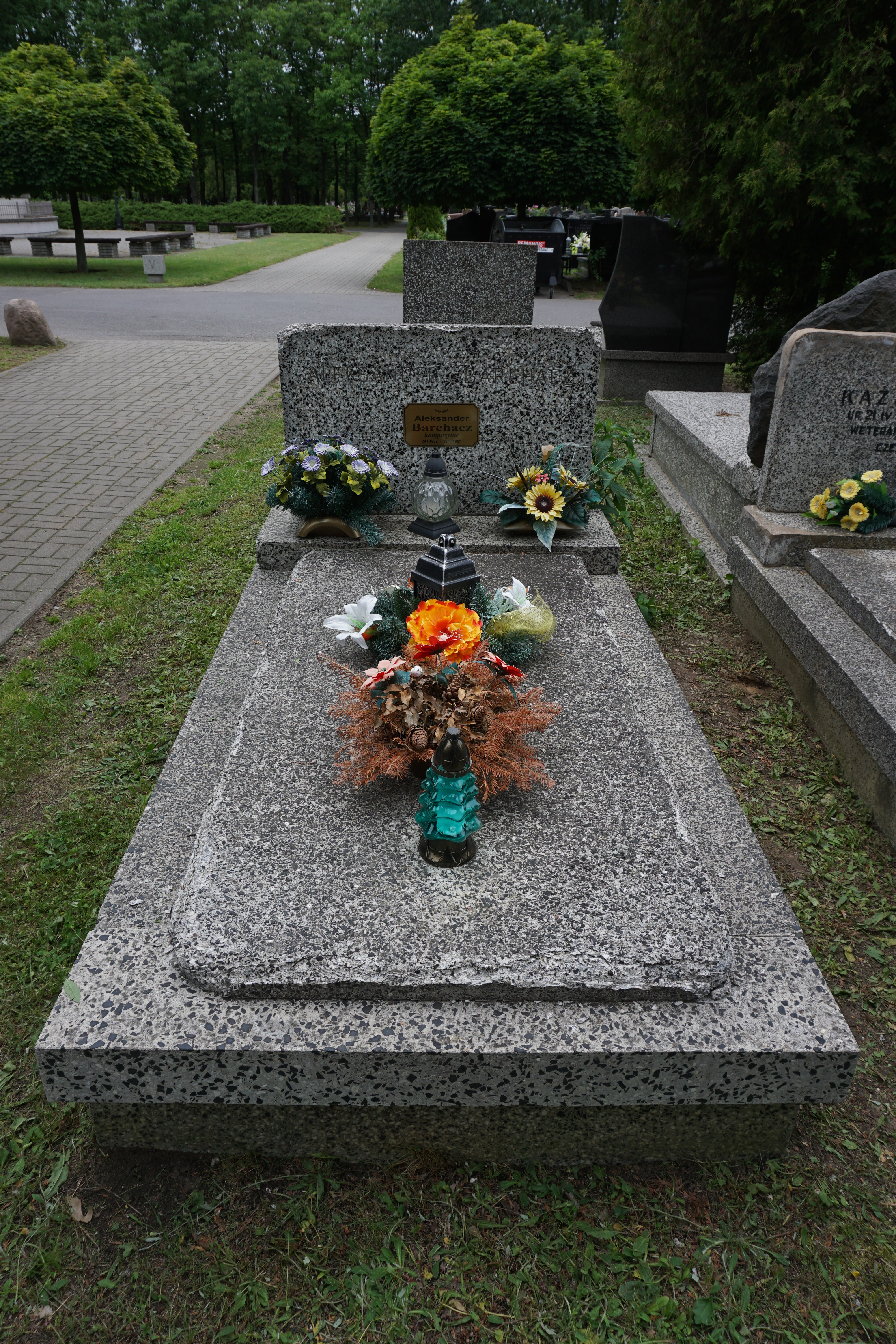 The grave of Aleksander Barchacz at the North Municipal Cemetery in Warsaw (section E-VI-1, row 3, grave 22)